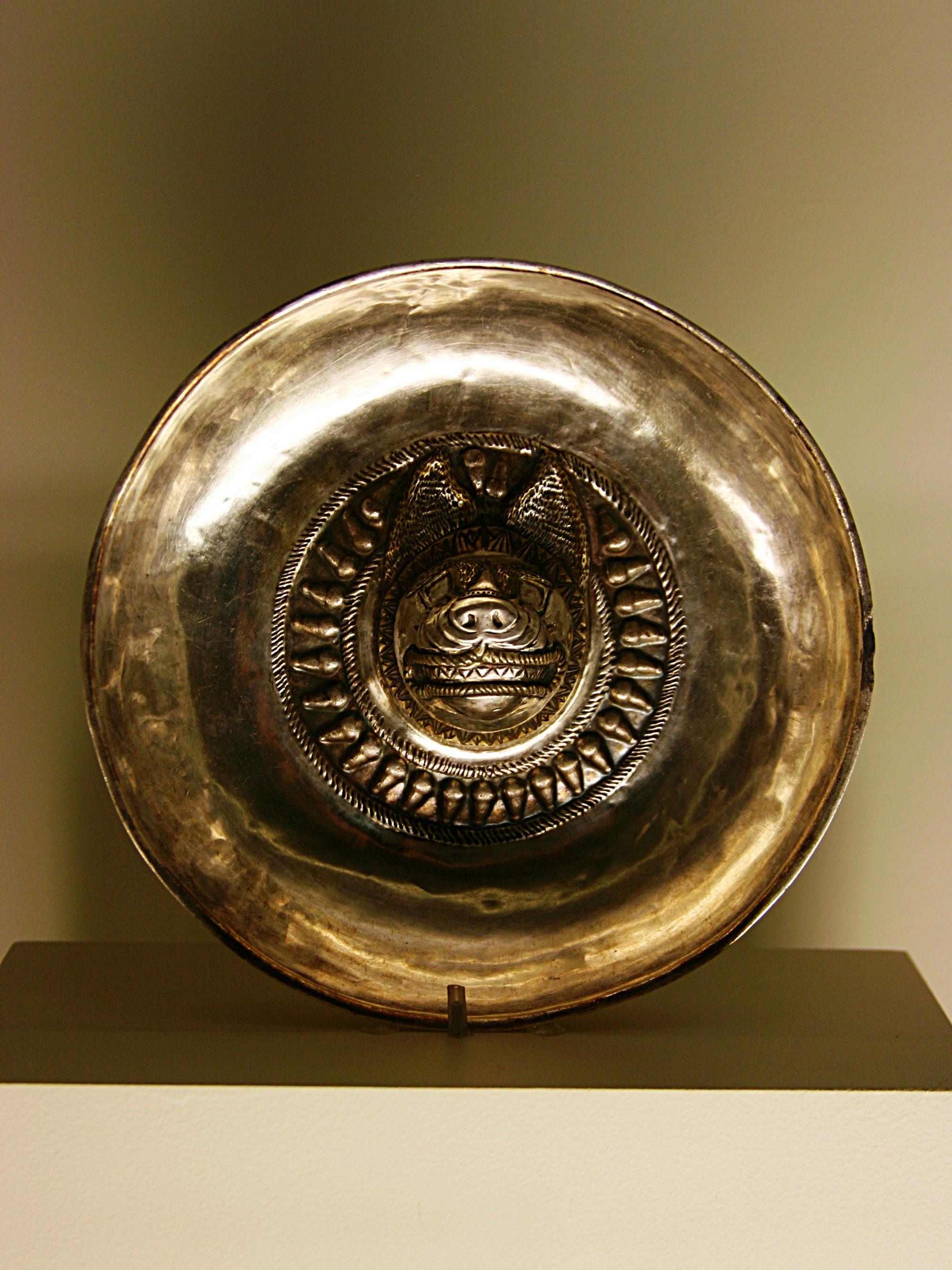 Museu d'Arqueologia de Catalunya